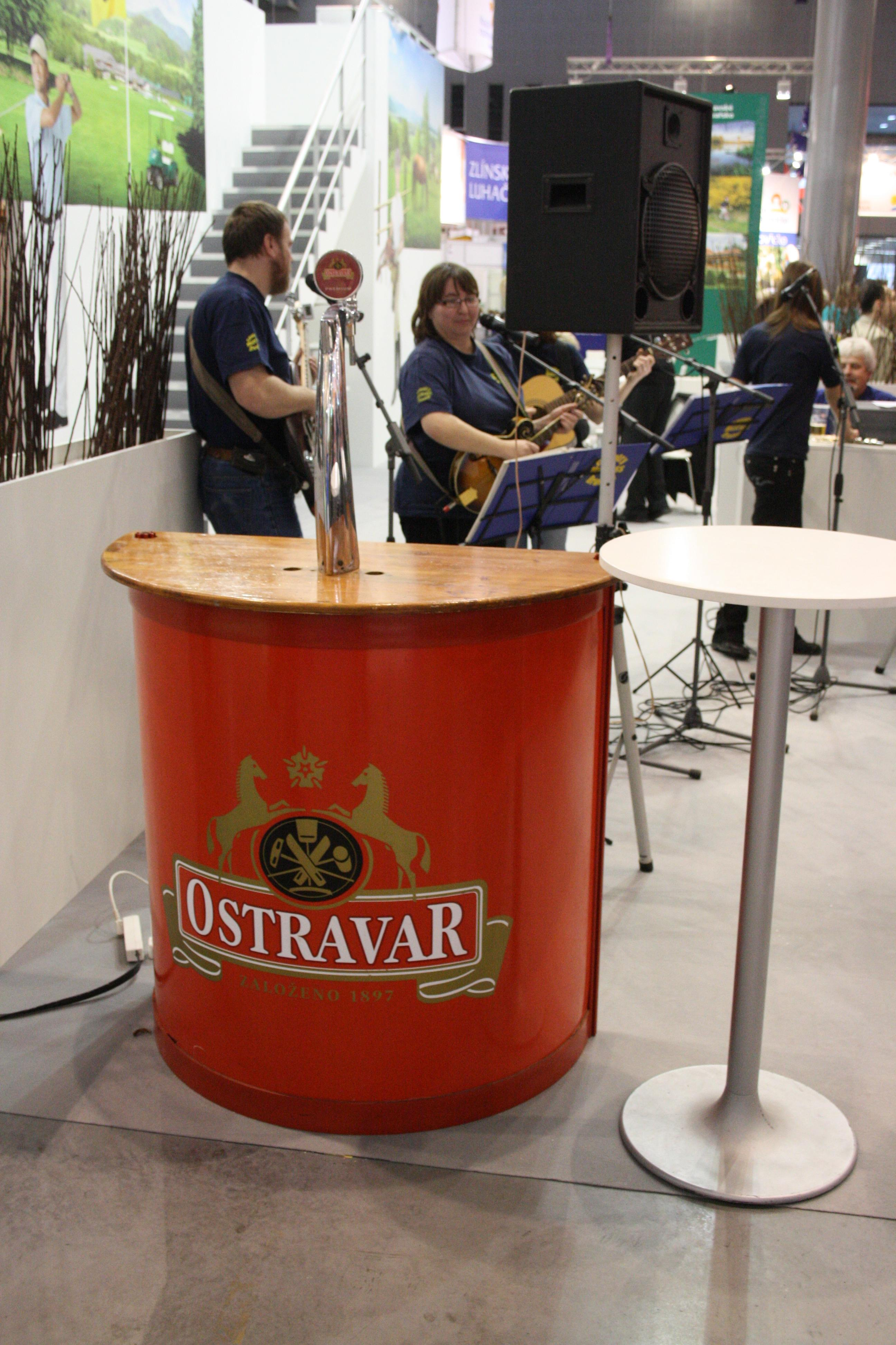 Presentation of various touristic destinations of Czech Republic.